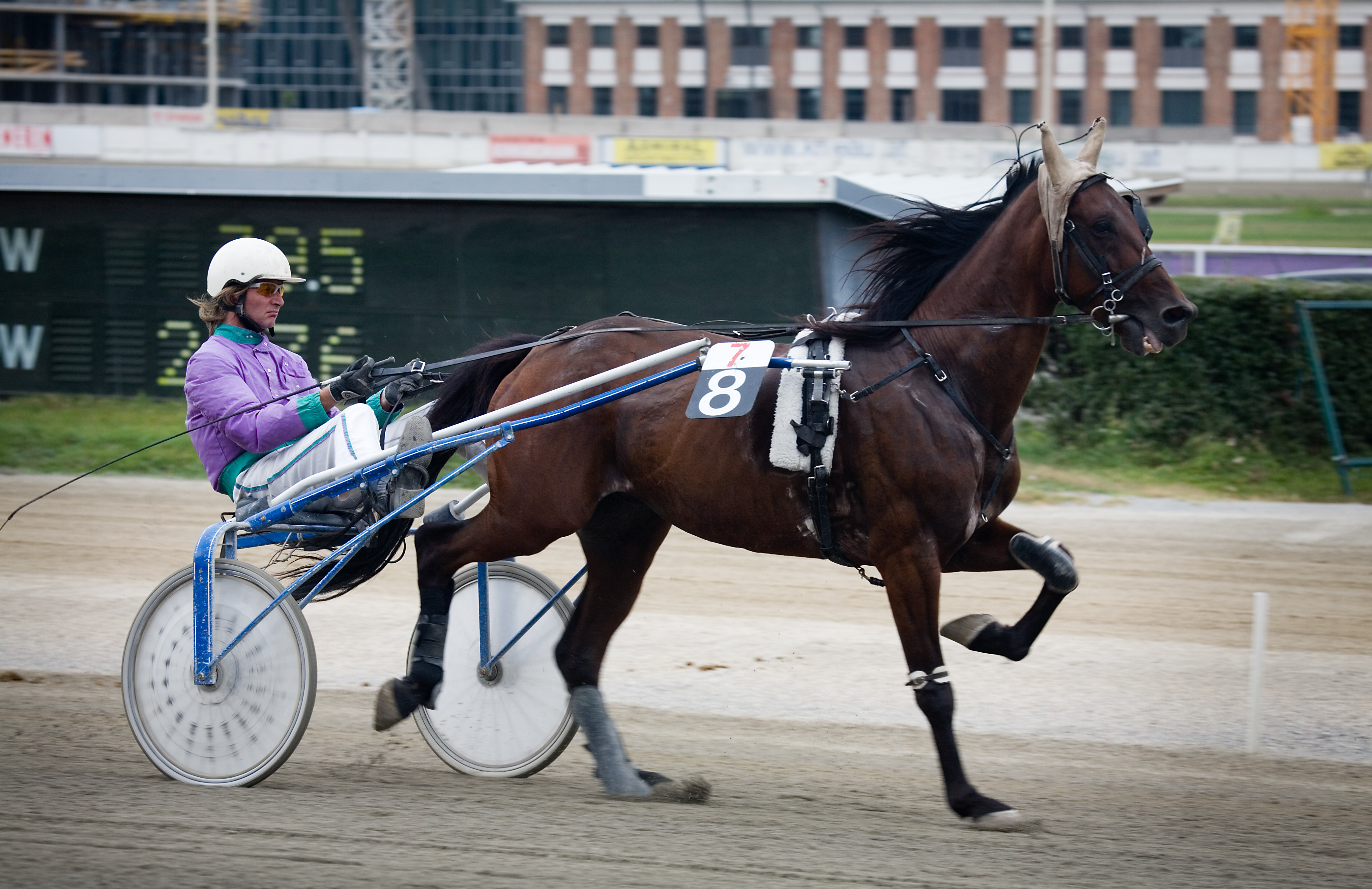 Trotting racer at the Krieau, Vienna, Austria